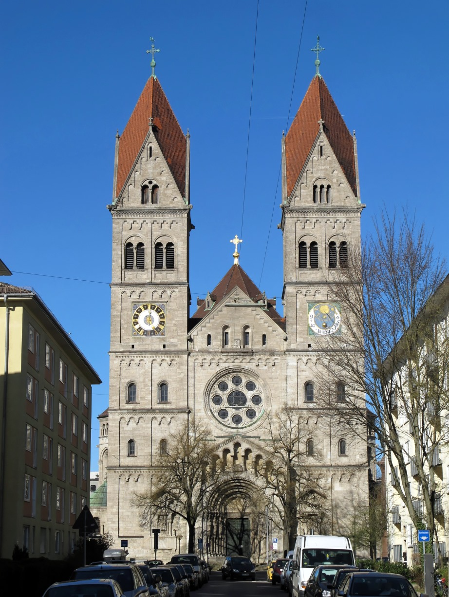 Munich,suburb Maxvorstadt, Church "St.Benno"